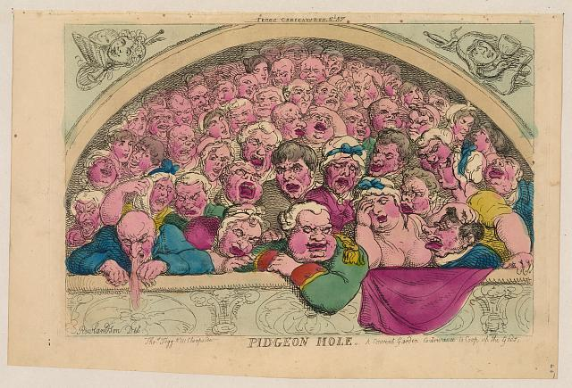 A close-up view of one of the 'pigeon holes' which flanked the upper gallery at Covent Garden